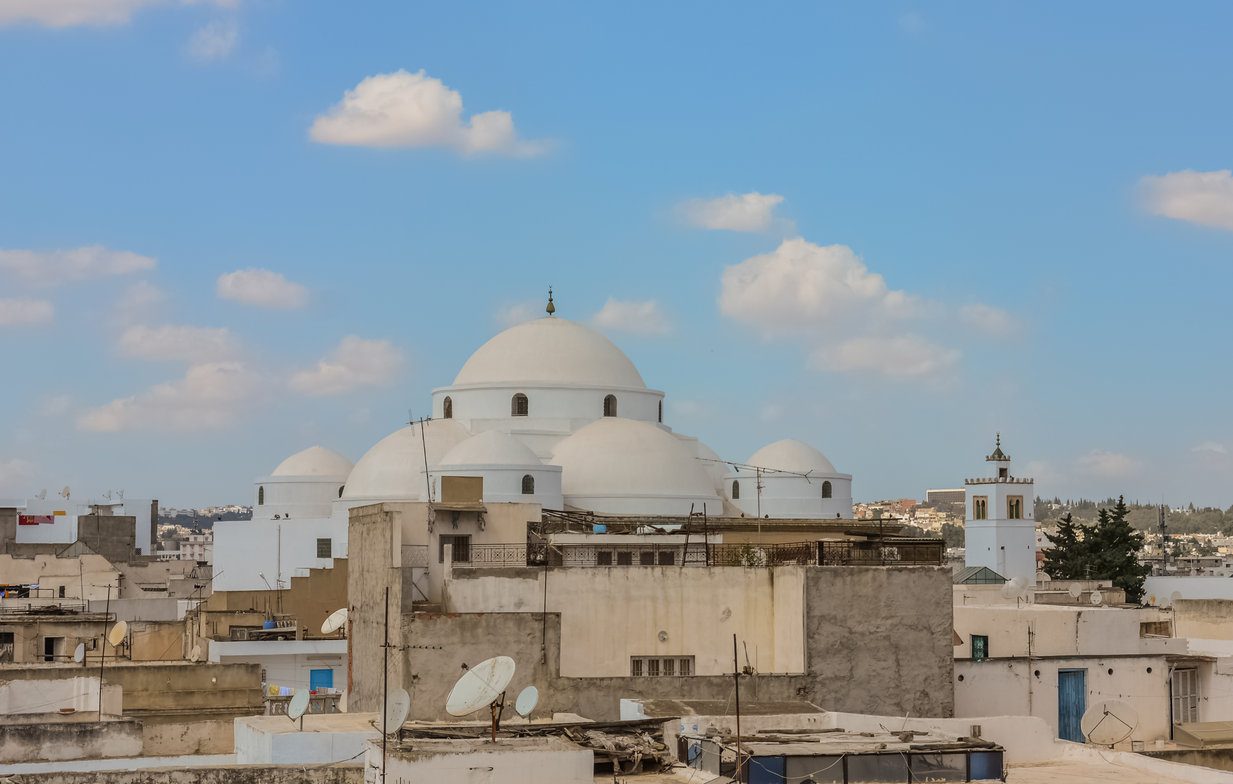 External dome view of the Mohamed Bey Mosque